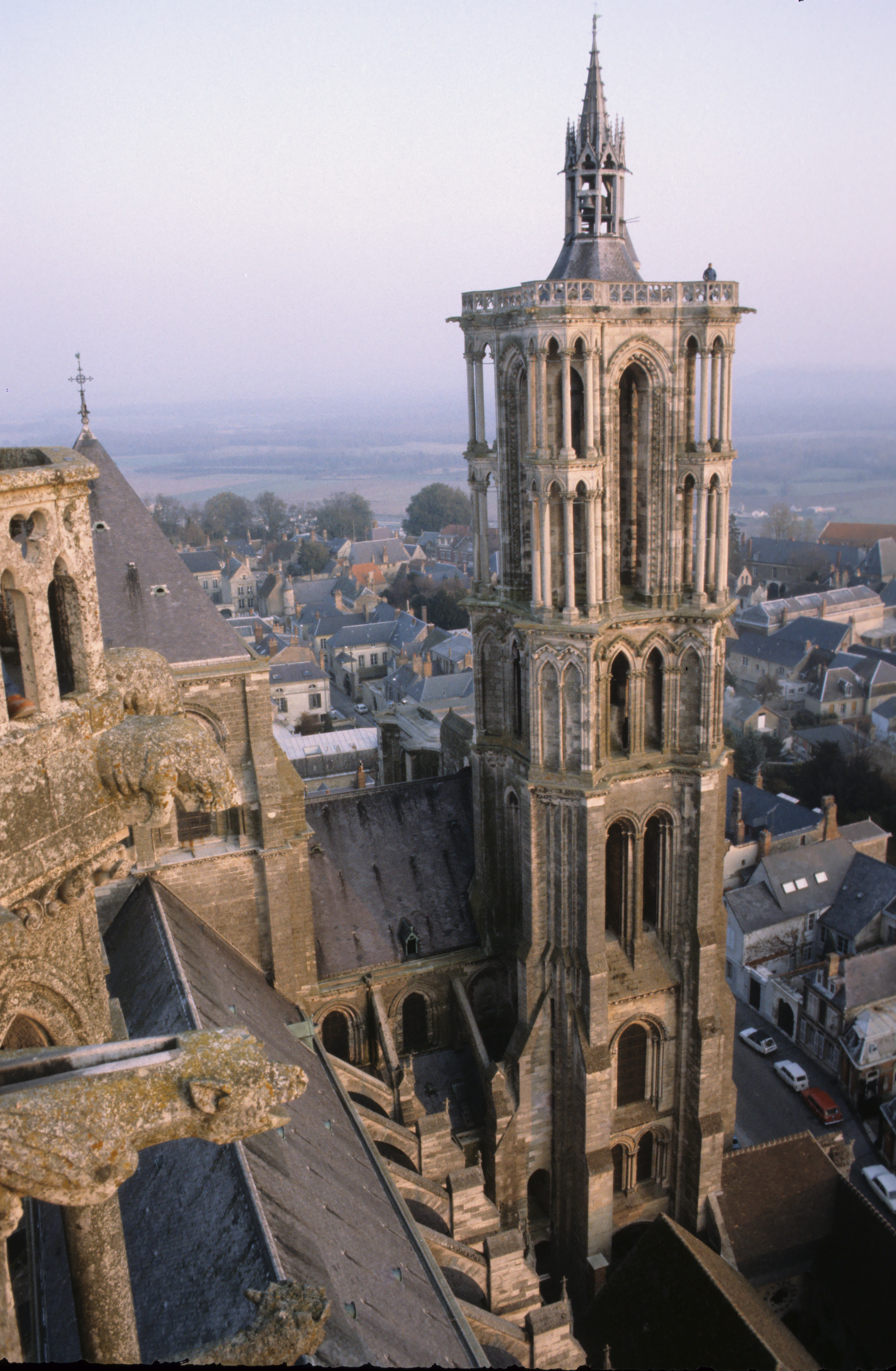 South tower from southwest tower, Laon Cathedral